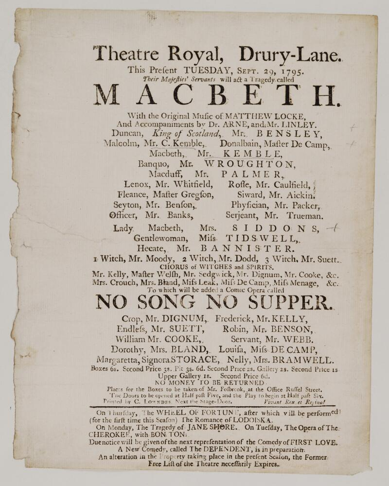 Playbill of Drury Lane Theatre, Tuesday, Sept. 29, 1795, announcing Macbeth &c.; Macbeth; No song no supper; Wheel of fortune; Llodoiska; Jane Shore; Cherokee; Bon ton; First love; Dependent; [Playbill of Drury Lane Theatre, Tuesday, Sept. 29, 1795, announcing Macbeth &c.]